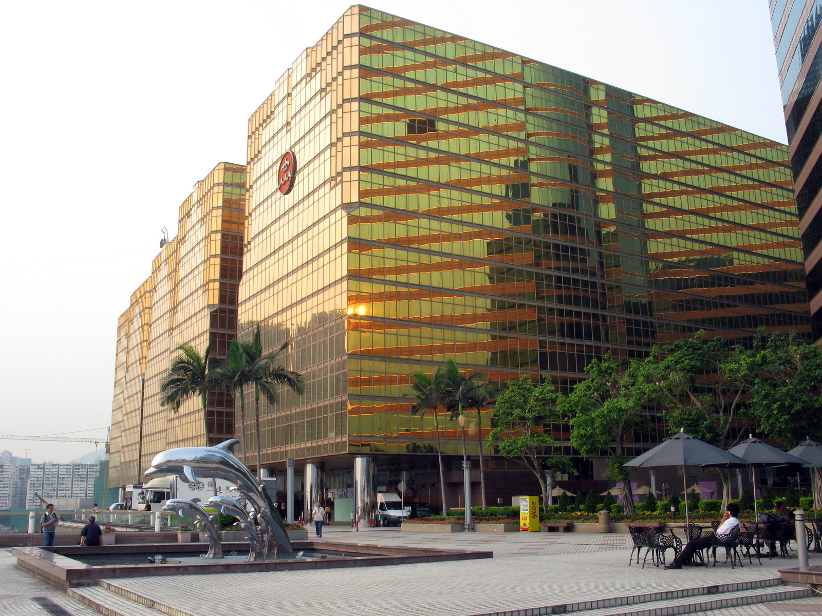 China Hong Kong City